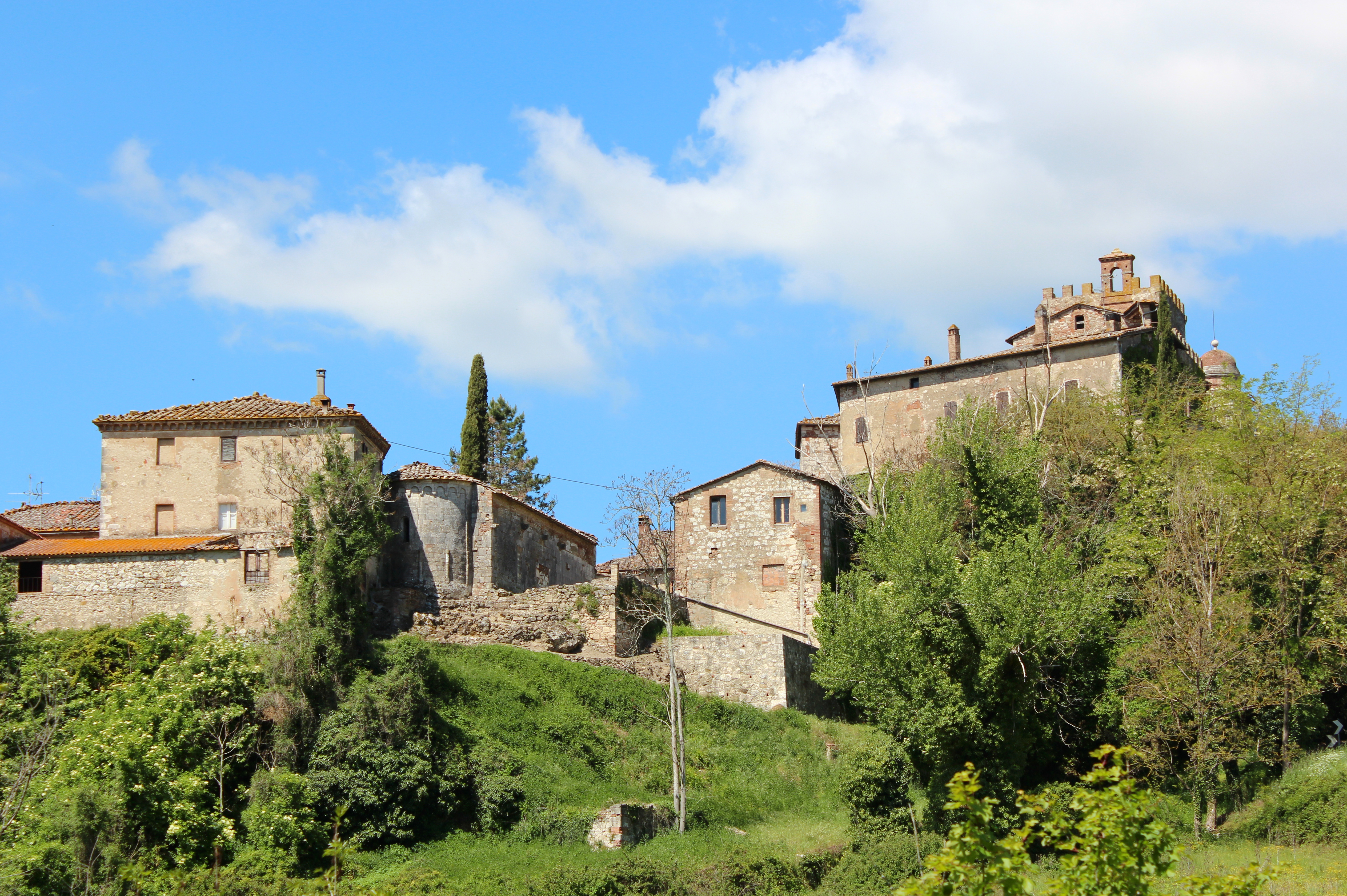 Castle Castello di Fròsini, Fròsini, hamlet of Chiusdino, Province of Siena, Tuscany, Italy